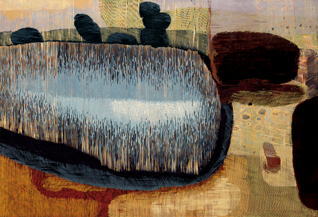 Ivo Křen, printmaker from the Czech Republic, Dangerous lake Island, multicoloured linocut 65 x 95 cm, 2013